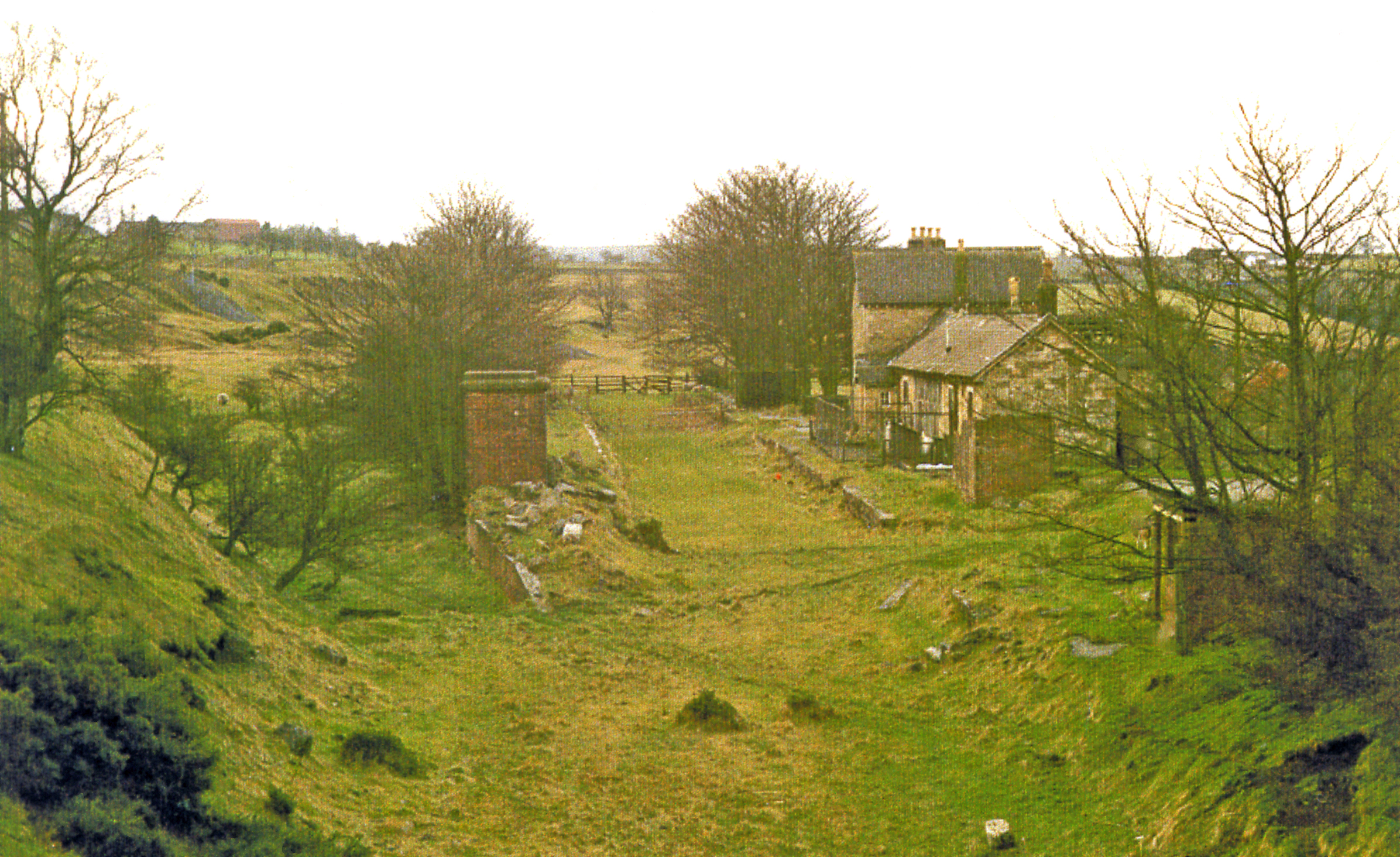 Remains of Cockfield Fell station. View SW, towards Barnard Castle: ex-North Eastern Bishop Auckland - Barnard Castle line. The station was closed 15/9/58, the line on 18/6/62.